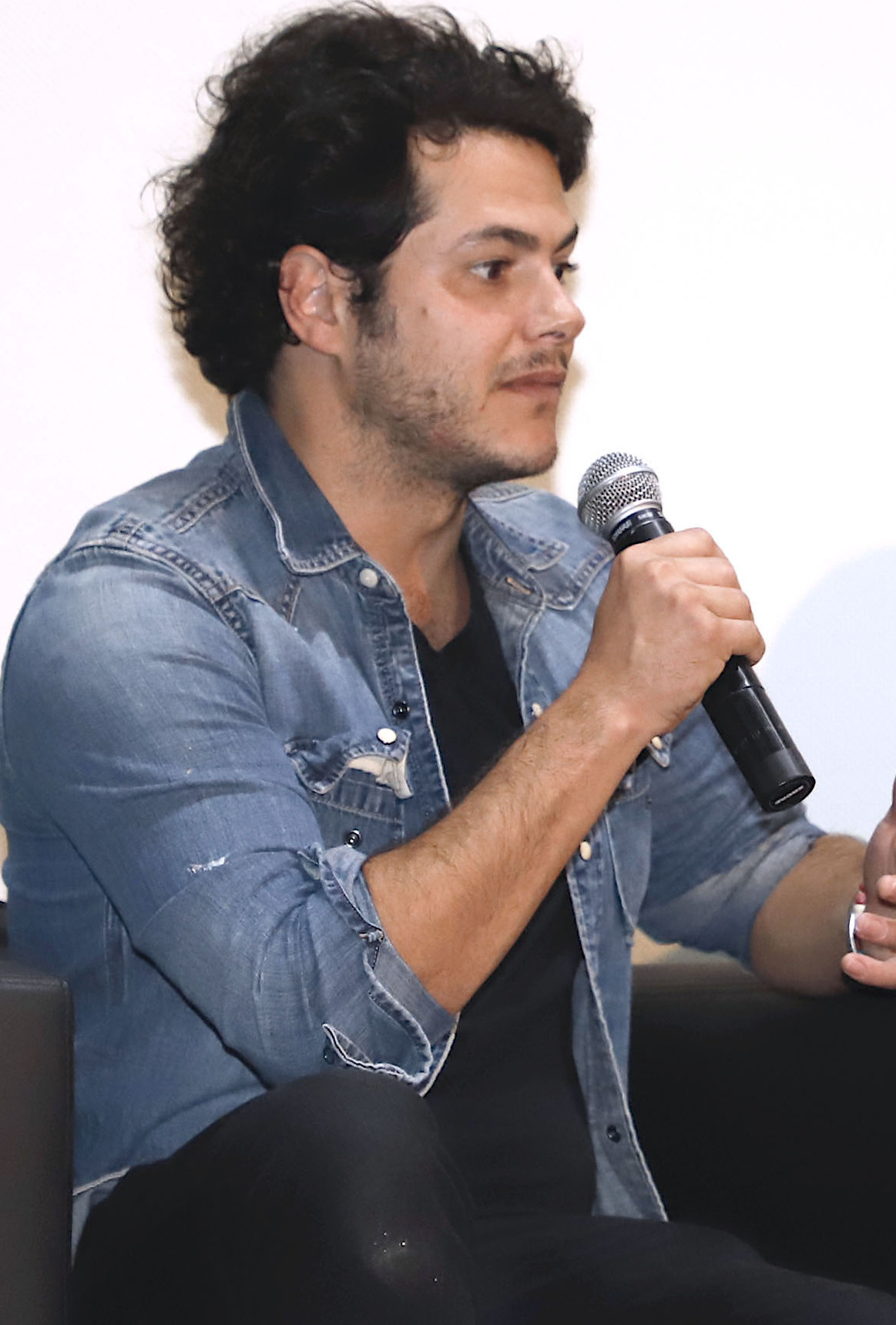 Miércoles 5 de febrero de 2020 En el Cine Lido, se realizó la conferencia de prensa, para anunciar el lanzamiento de la convocatoria de la 15º edición de Shorts México, con la presencia del actor Alfonso Dosal; Lola Díaz-González García, de IMCINE; Jorge Magaña director y fundador y la actriz Regina Blandón Fotografía: Milton Martínez / Secretaría de Cultura de la Ciudad de México.